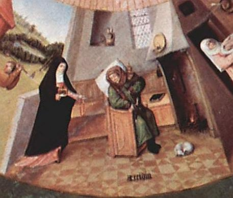 Hieronymus Bosch - The Seven Deadly Sins - Sloth (detail)